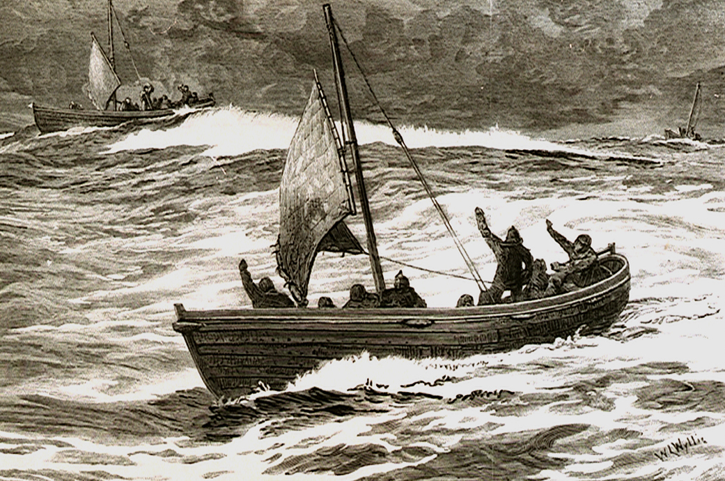 The loss of the Jeannette Separation of the boats during a gale, seven P.M September 12 1881 Illustration from the Graphic Saturday May 20, 1882 Signed by artist.